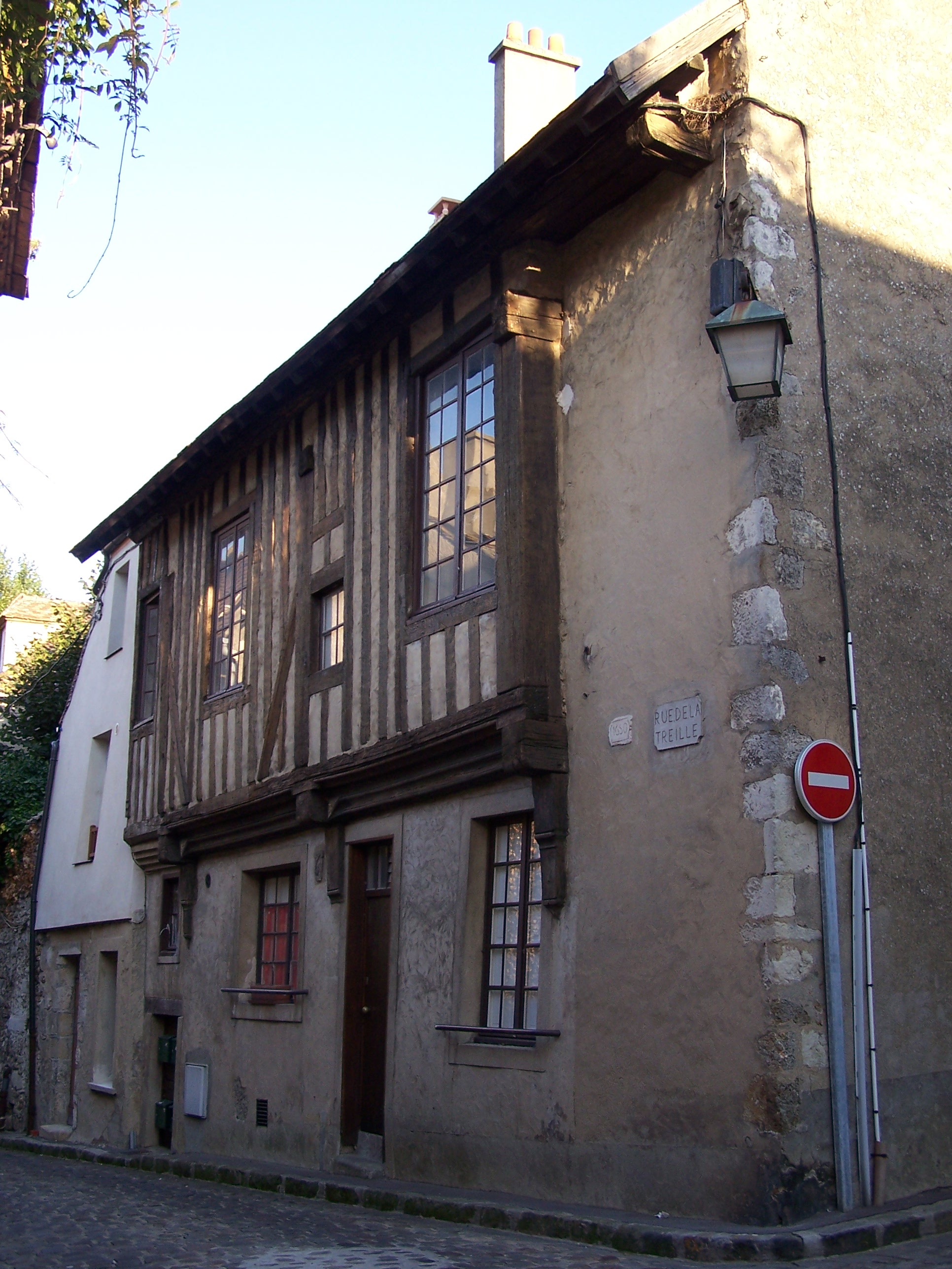 Half-timbered house in Rue de la Treille, Montfort-l'Amaury (Yvelines, France)